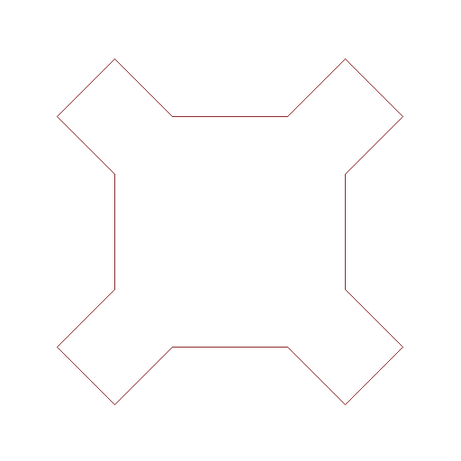 Sierpinski Curve of order 1. Drawn by a Java program I did myself.